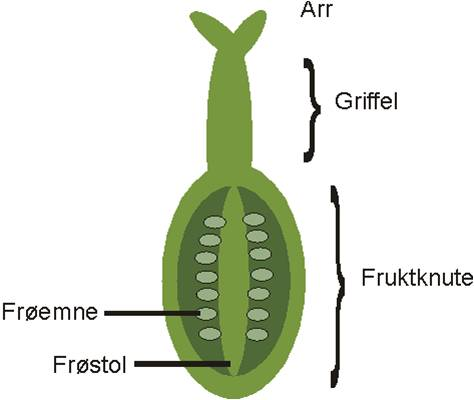 Ovary of a flowering plant